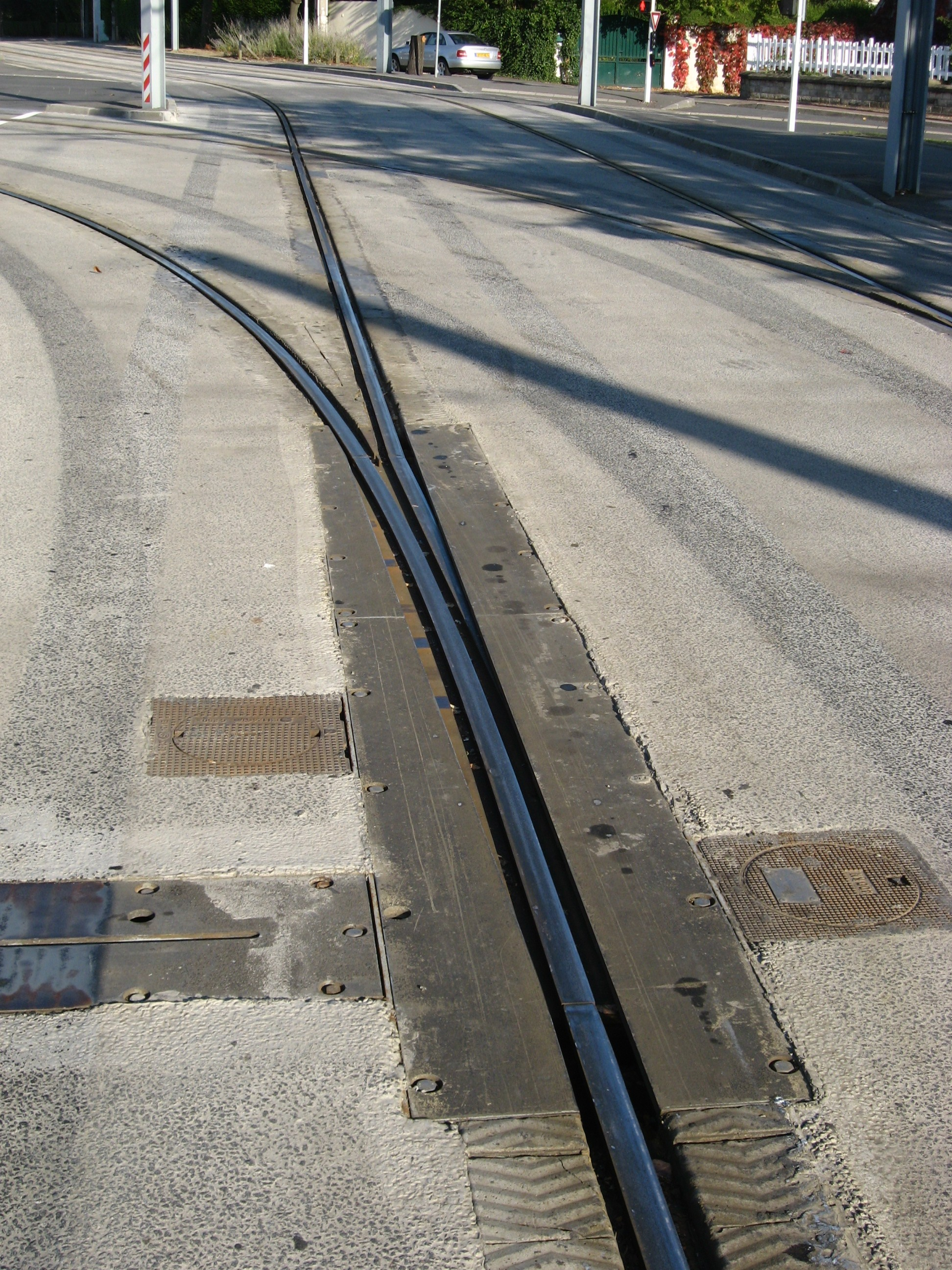 "Tram" point in Caen (France). There is a single guiding rail. The whole plate under the two rails moves to present the correct rail.